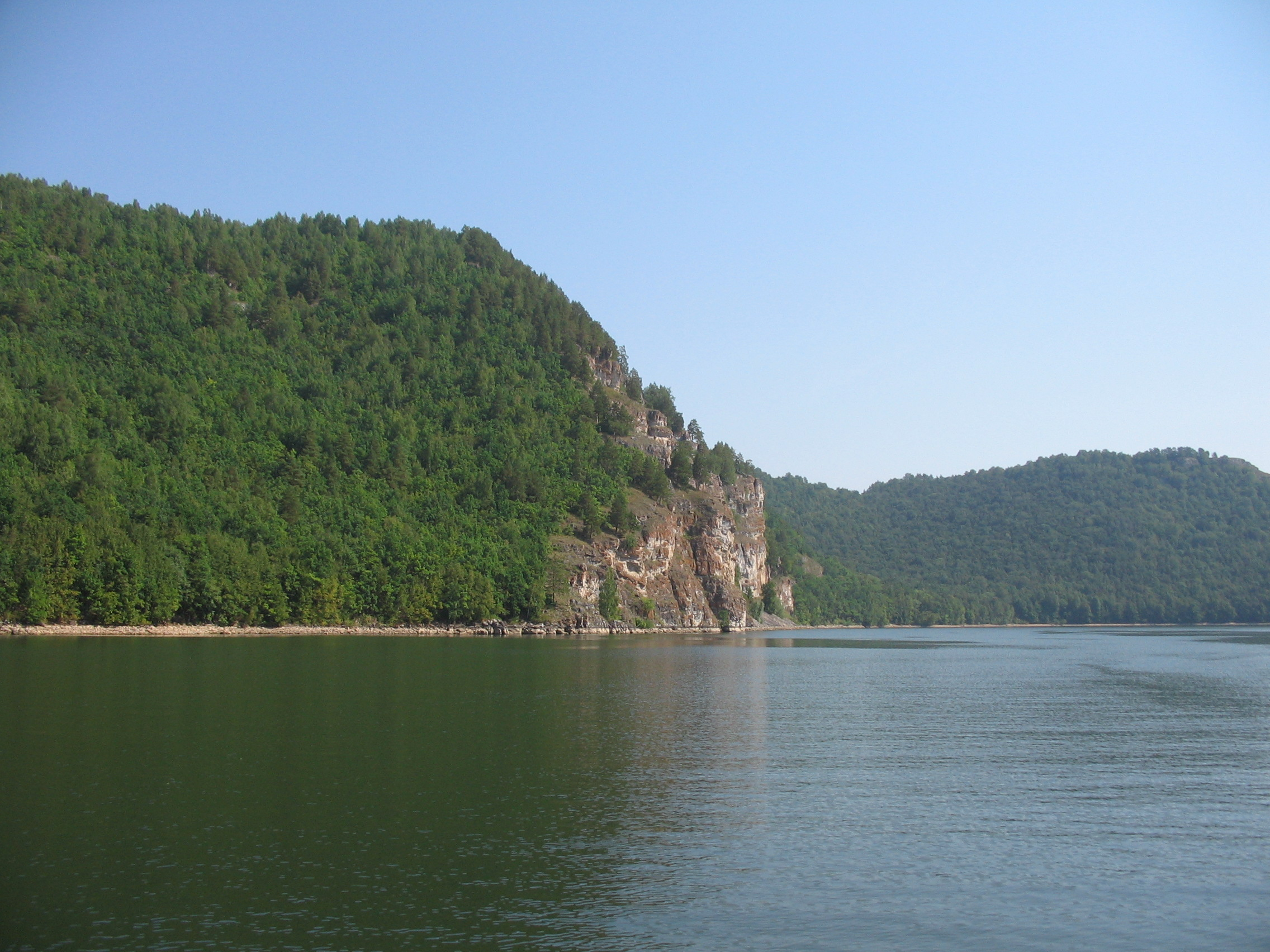 Nugush water reservoir storage in Bashkortostan of Russian Federation